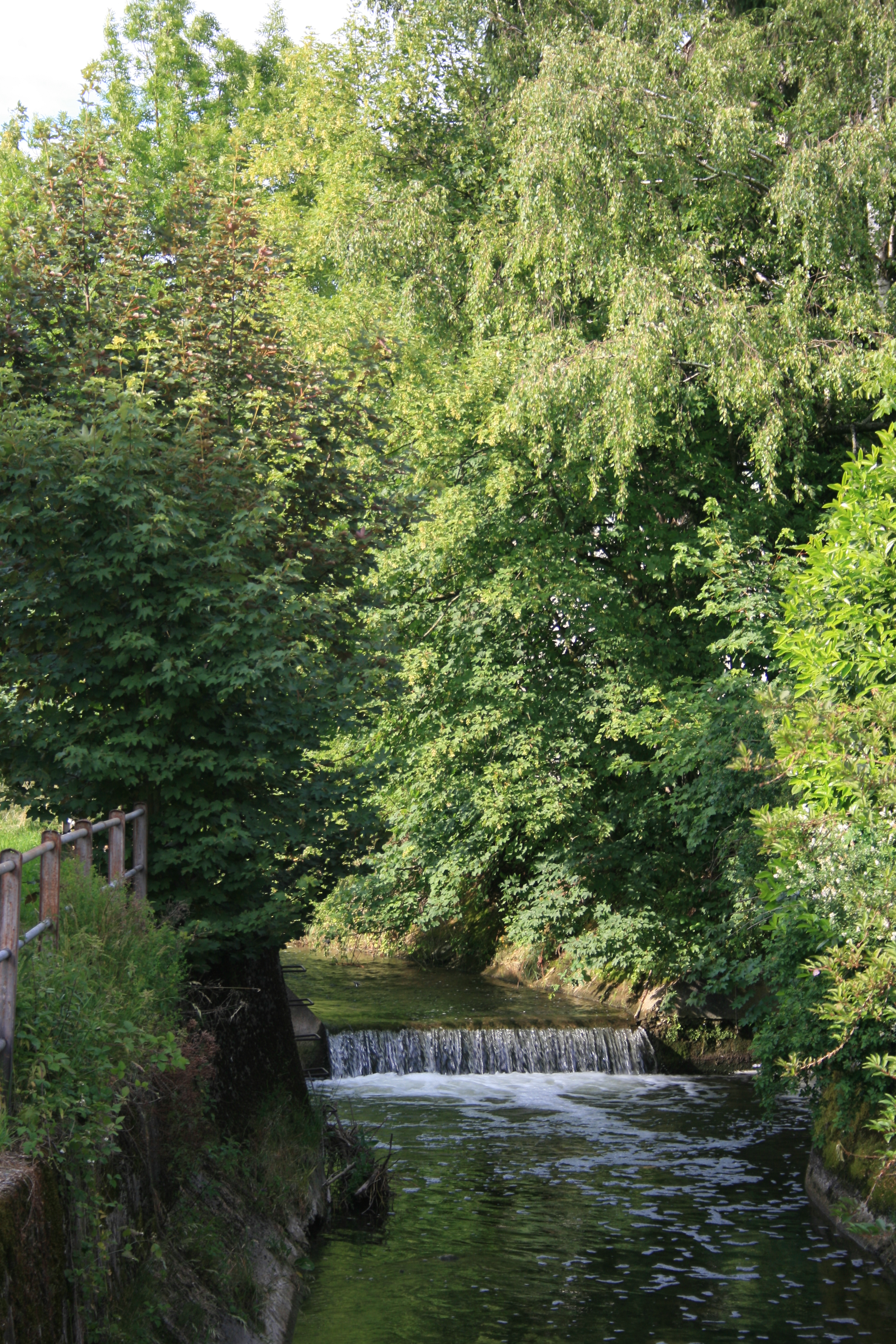 Furtbach at Wuerenlos AG, Switzerland